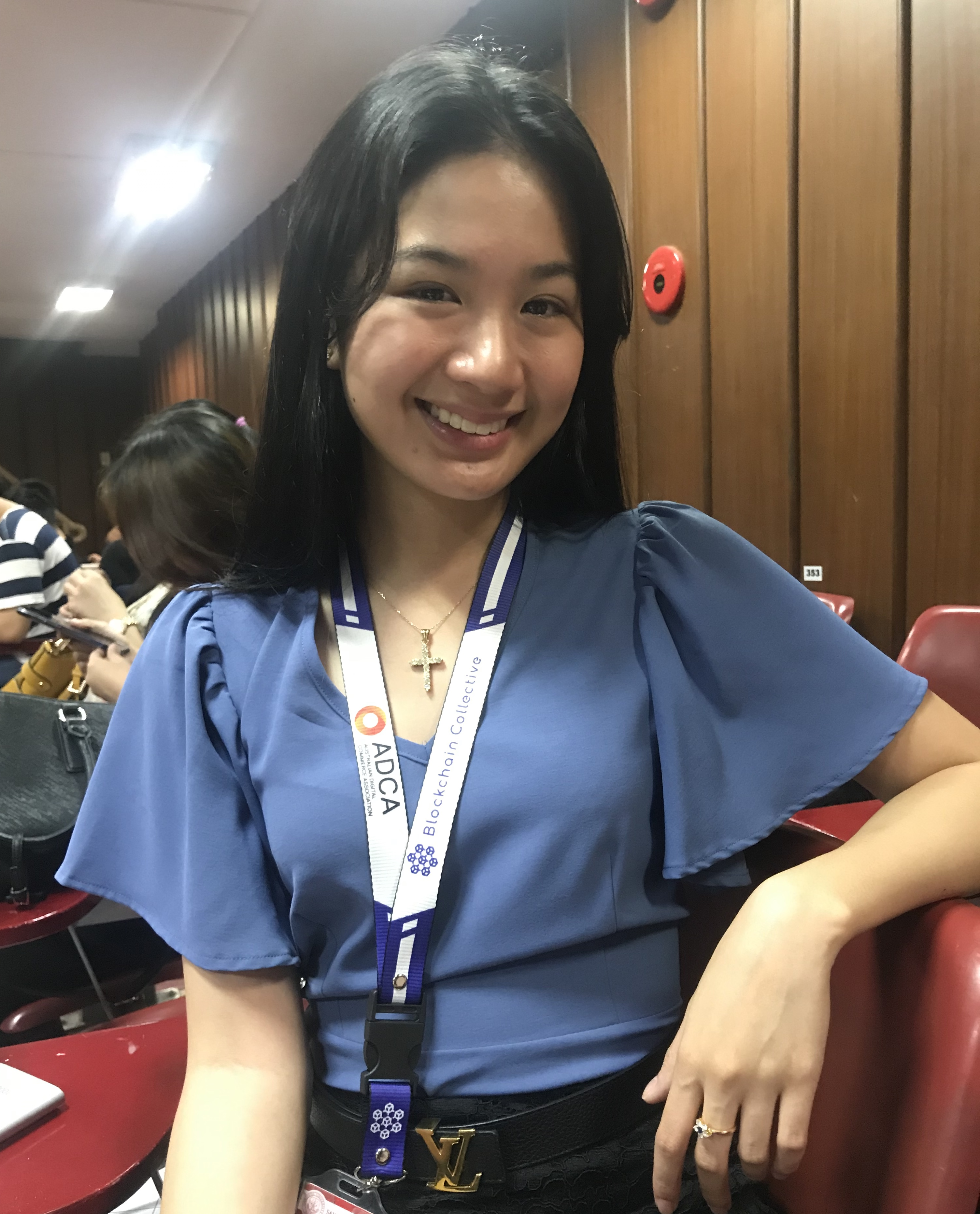 Sophia during a seminar in San Beda. (2019)